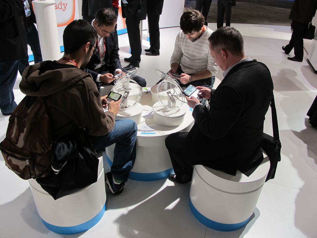 Sony Ericsson, Xperia Play station